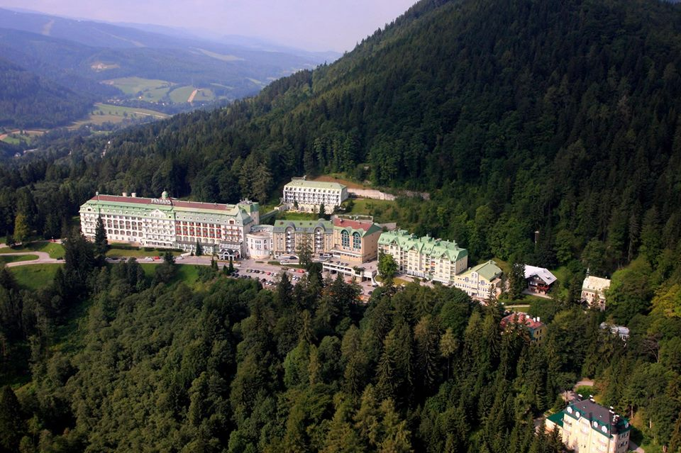 Grand Hotel Panhans, 1888